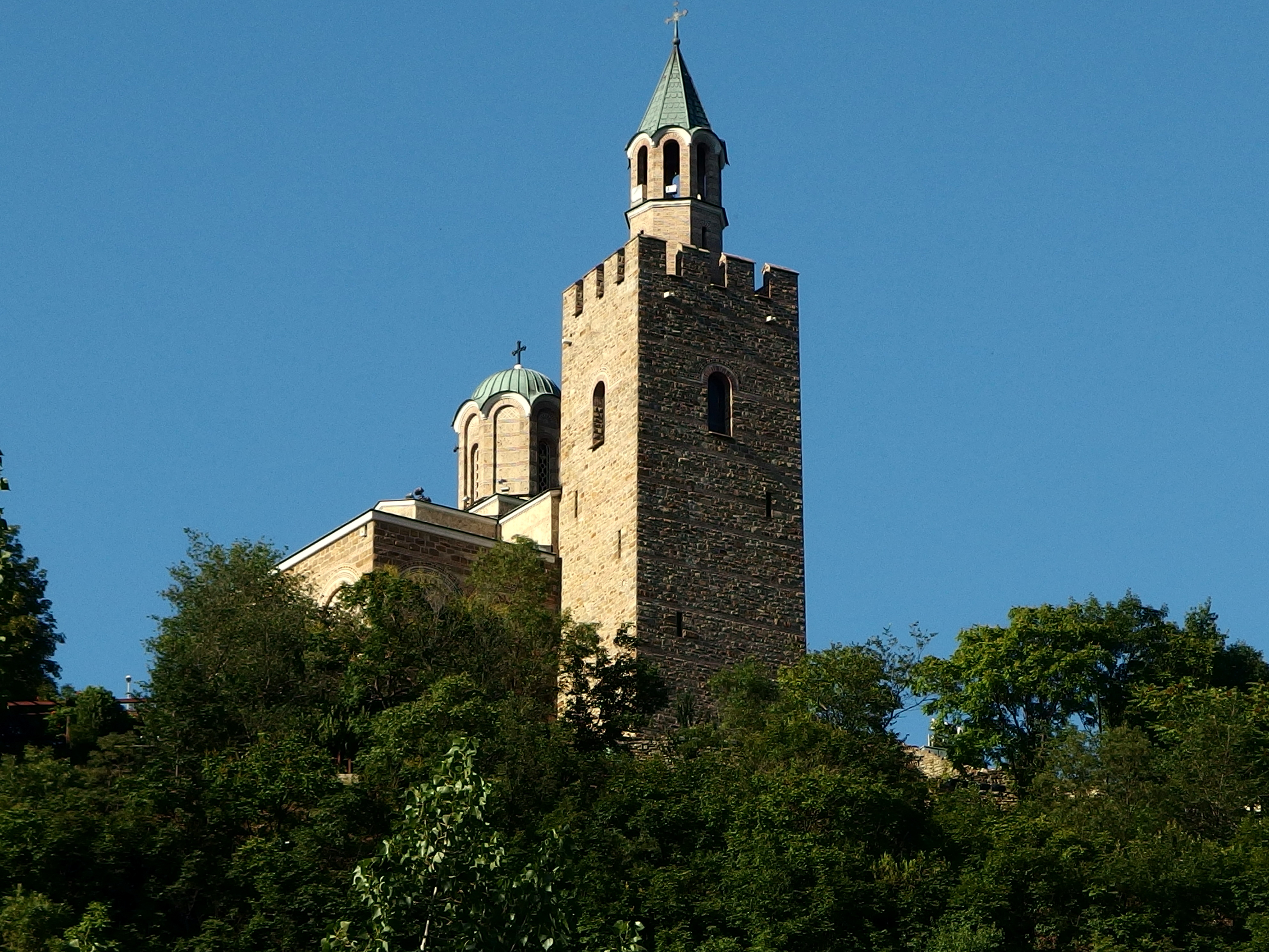 2014-06-23 in Veliko Tarnovo.